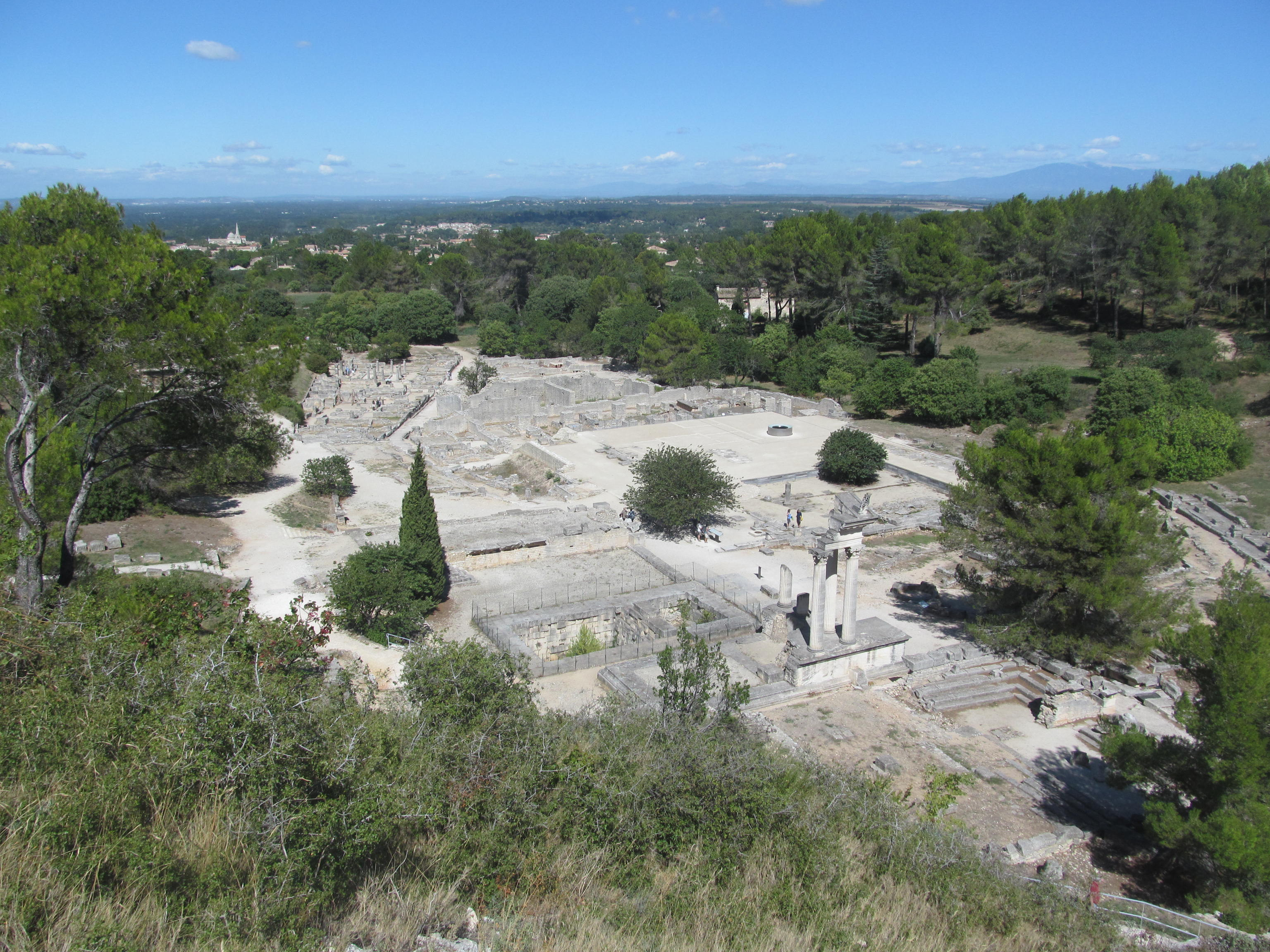 Glanum - Total View